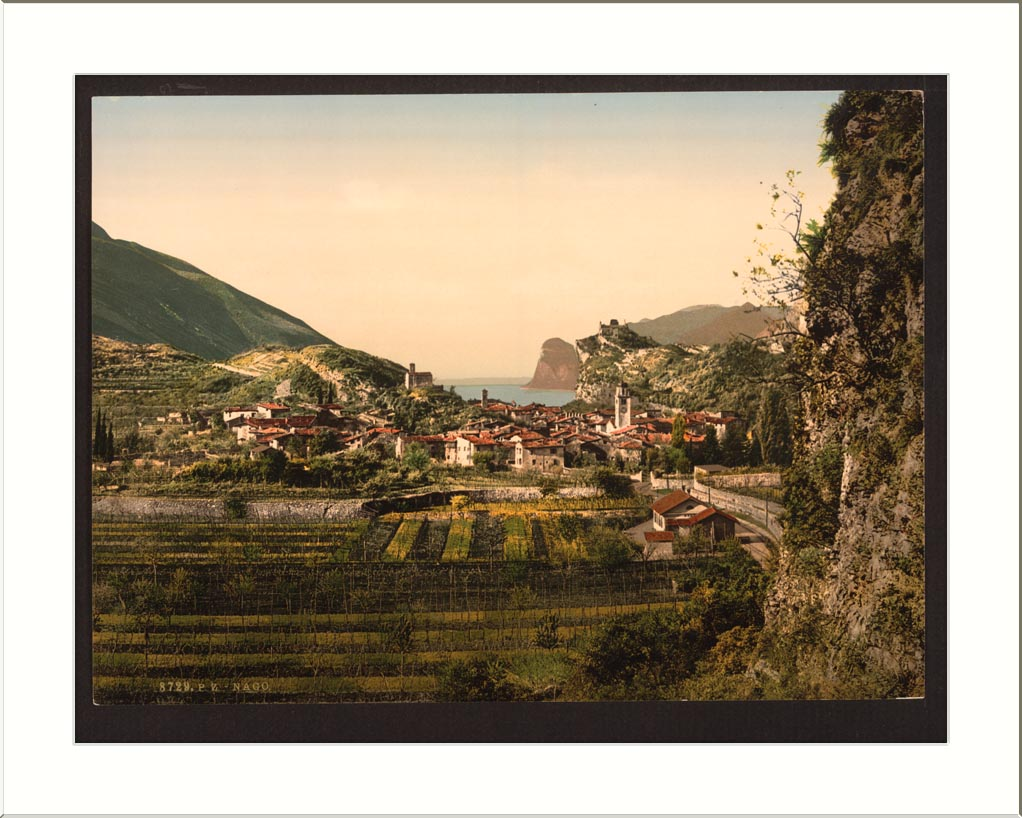 Nago Garda Lake of Italy